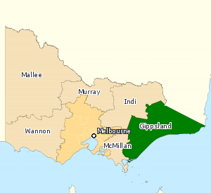 Incorporates or developed using Administrative Boundaries ©PSMA Australia Limited licensed by the Commonwealth of Australia under Creative Commons Attribution 4.0 International licence (CC BY 4.0). Derived from State and Territory Boundaries from the Australian Bureau of Statistics under Creative Commons Attribution 2.5 Australia license (CC BY 2.5 AU)